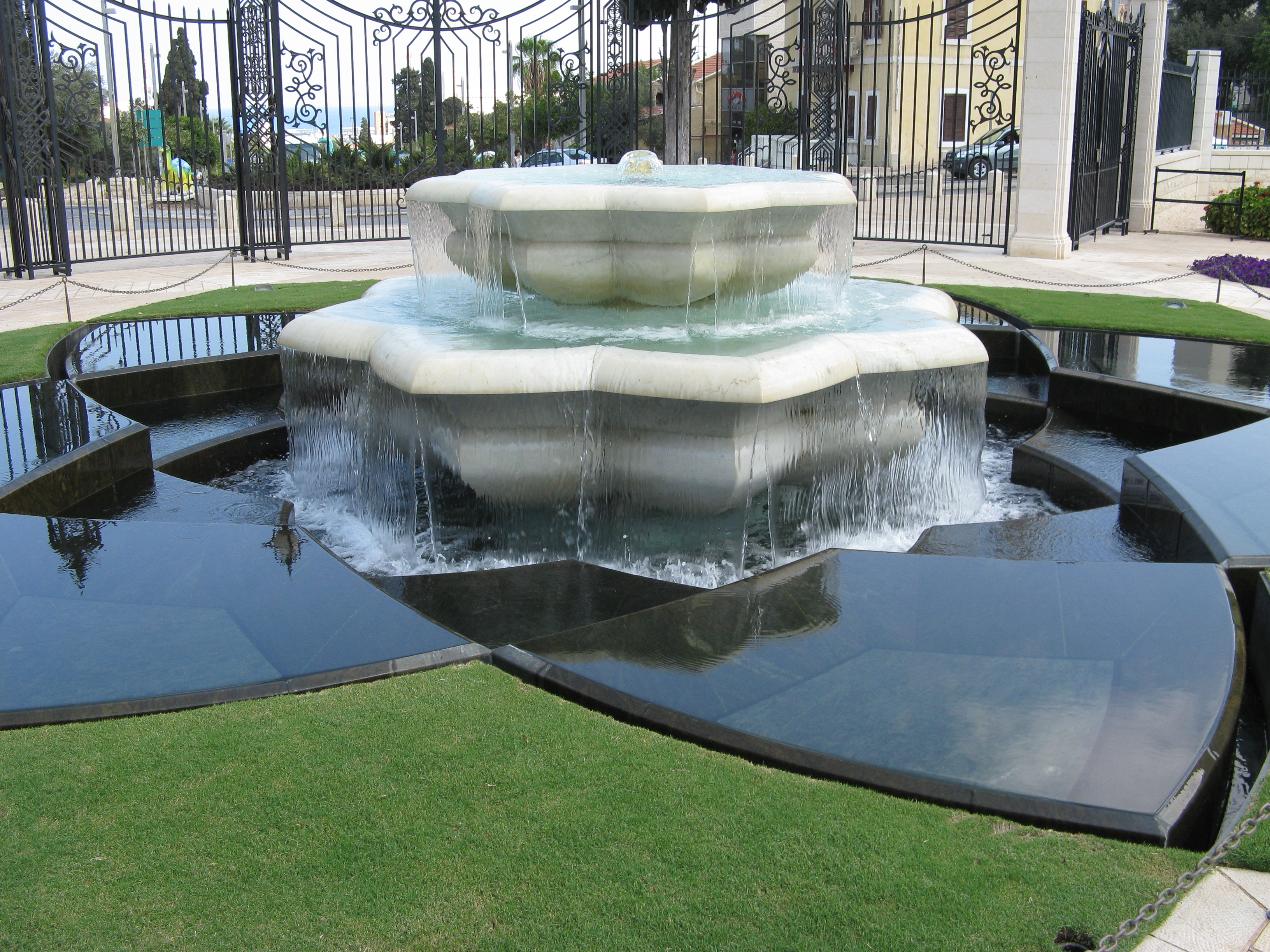 Fountan at the foot of Bahai Terrace